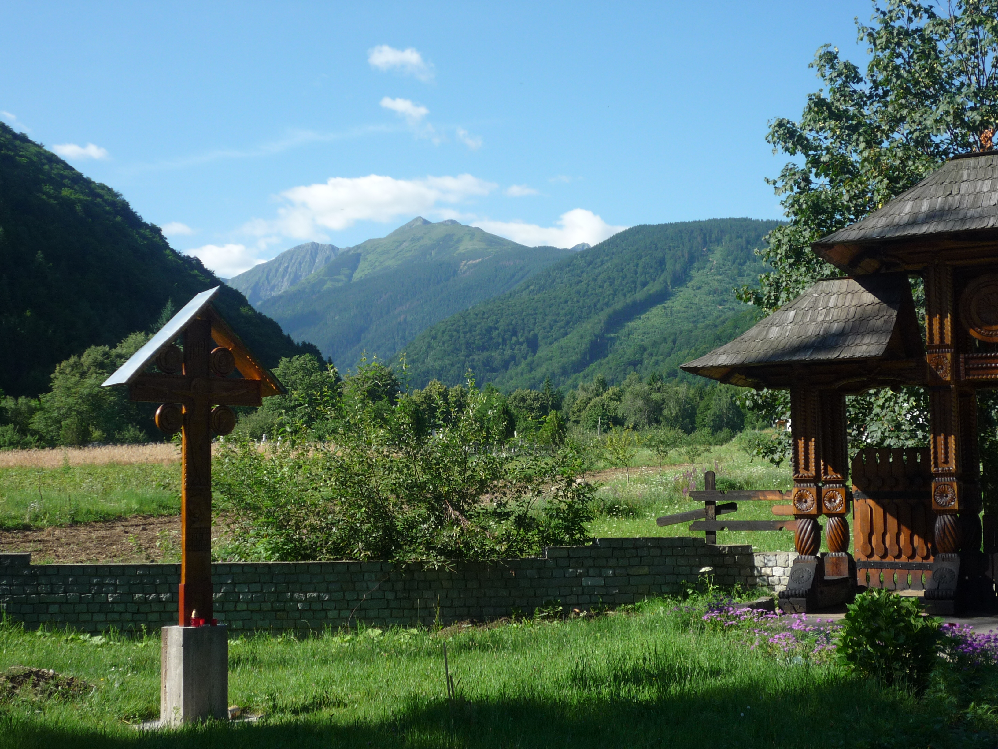 Brancoveanu Monastery is an Christian Orthodox Monastery from Romania, located in the village of Sambata de Sus, Brasov County, Transylvania.